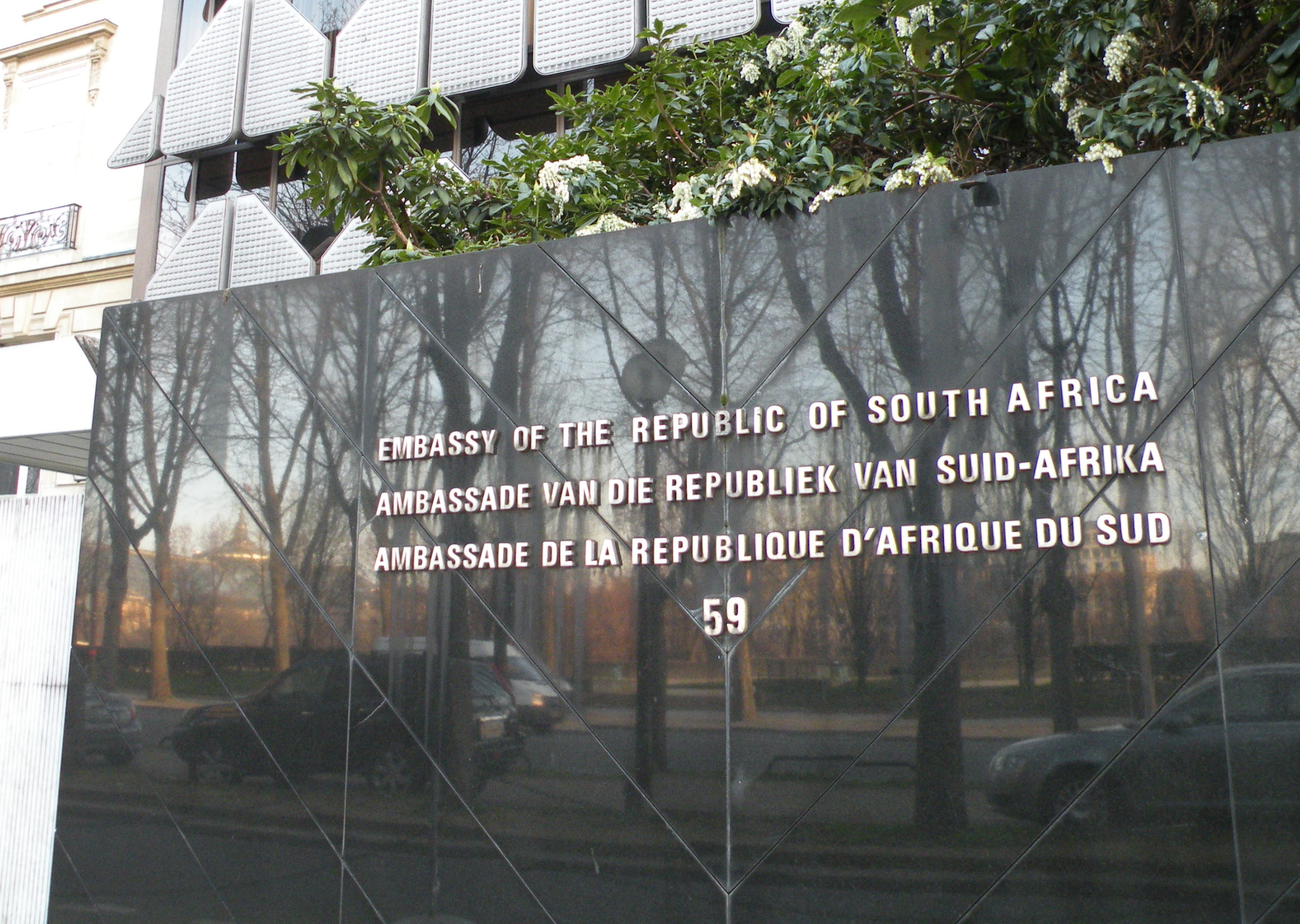 South African embassy in France, Paris